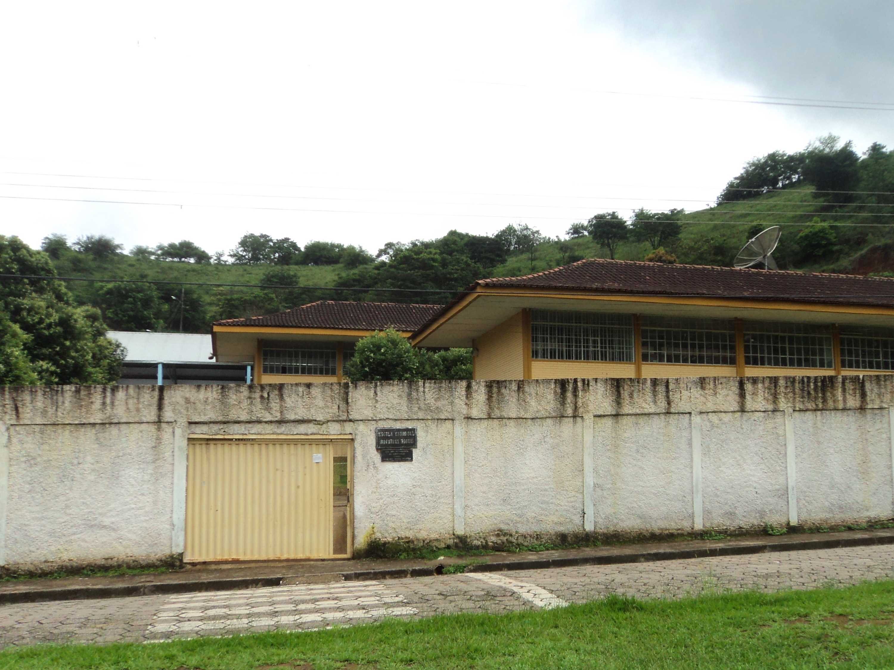 Entrance of the Escola Estadual Zacarias Roque, em Coronel Fabriciano, Minas Gerais, Brazil.